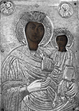 Icon from Petra Monastery in Olympus